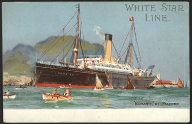 White Star Liner Romanic at Palermo